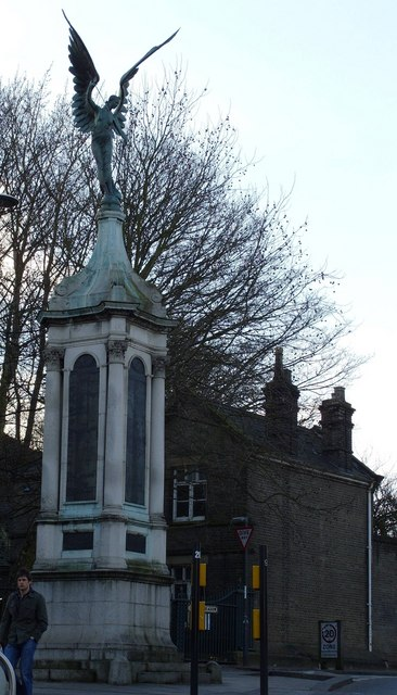 Boer War Memorial, Royal Norfolk Regiment This is the war memorial for Norfolk men who died in the Boer Wars, at the start of the 20th Century. It is at the end of Castle Meadow. The names of the fallen are on the panels. The figure is an angel, replacing a sword in a scabbard.